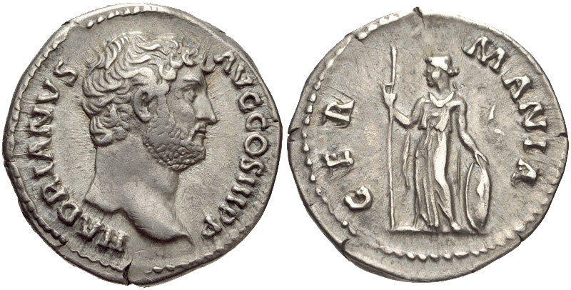 Hadrianus. AD 117-138. AR Denarius (18mm, 3.23 g, 6h). Rome mint. Struck circa AD 134-138. HADRIANVS AVG COS III PP Bare head right GERMANIA Germania standing facing, head left, holding spear and shield set on ground. RIC II 303; RSC 802. VF, toned.